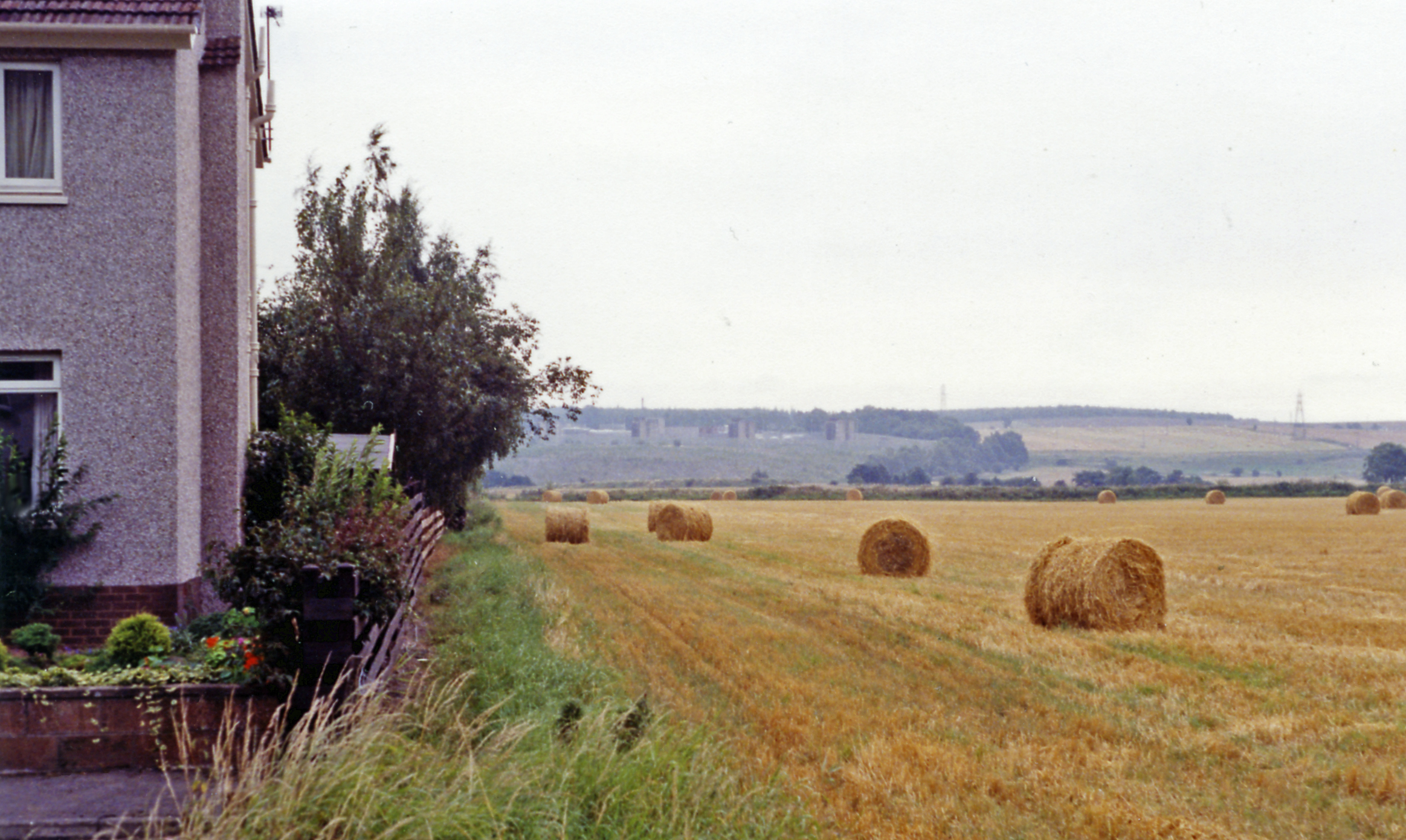 South view over Devon Valley from Alva at site of station, 1991. Nothing whatever was to be seen of the railway or its buildings, but the terminus had been on the left and the line ran across the field ahead, going westward (right) to Cambus: ex-NBR branch off the Stirling - Alloa line, closed to passengers 1/11/54, to goods 24/2/64.